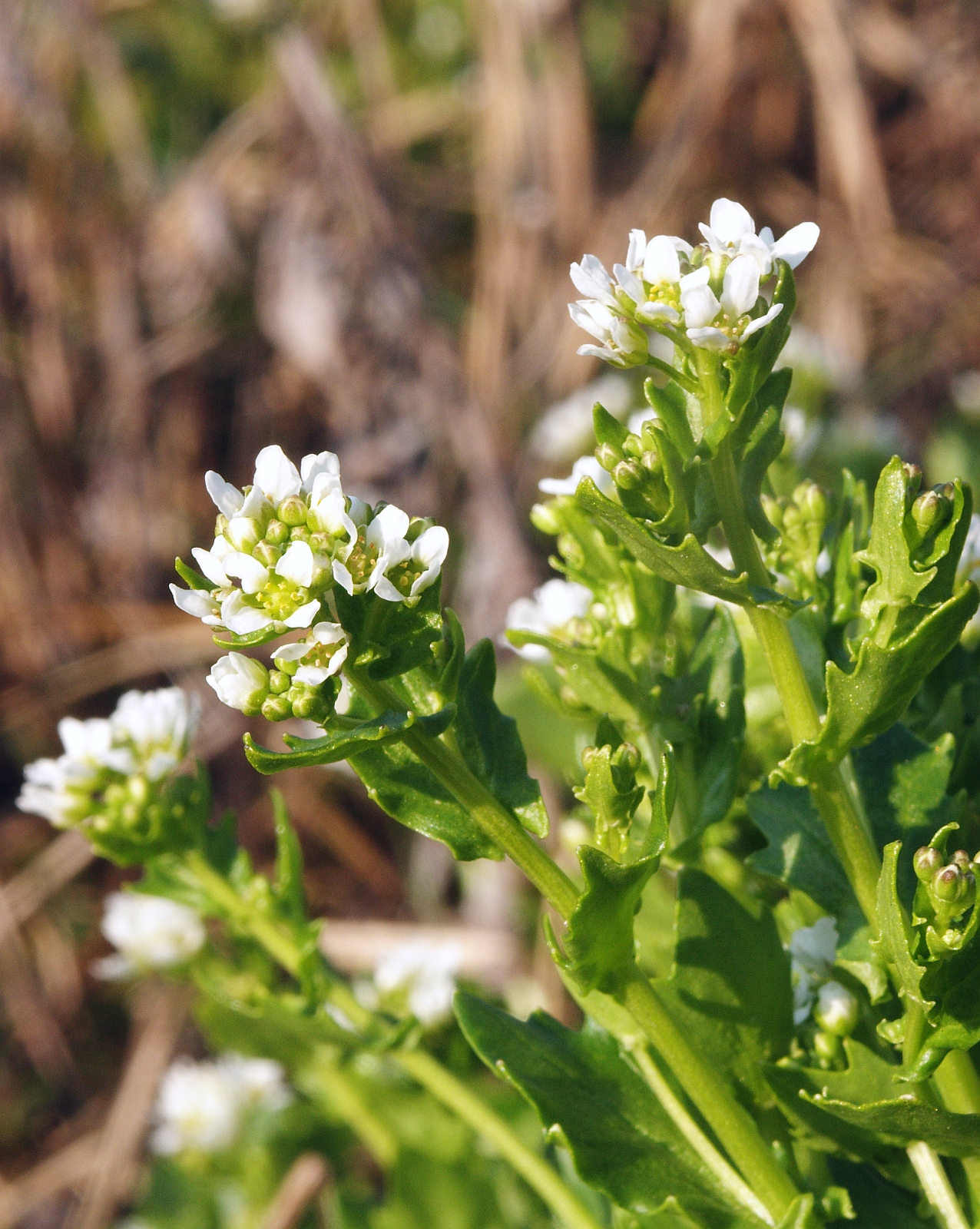 Cochlearia pyrenaica, Hohenloher Land, Germany